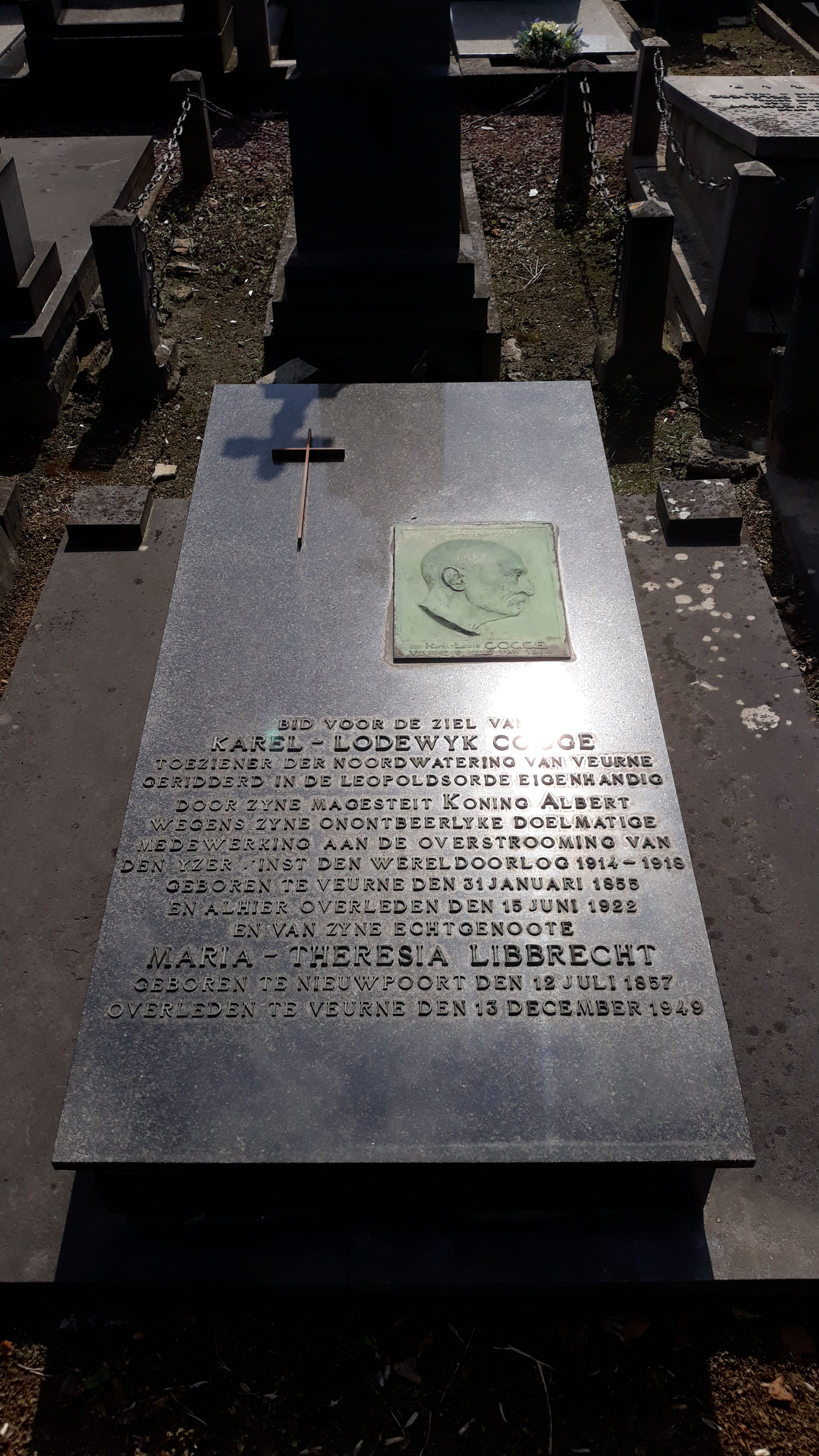 Grave of the Belgian water engingeer Karel Cogge and his wife Marie at Veurne Cemetery (West Vlaanderen, Belgium).